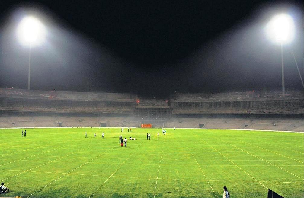 The under construction DY Patil Cricket stadium at Nerul , Navi Mumbai